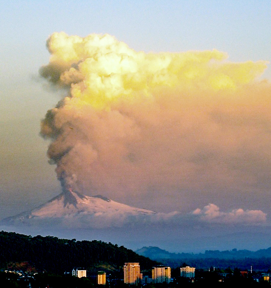 Llaima volcano eruption viewed from Temuco (Araucanía Region, Chile)